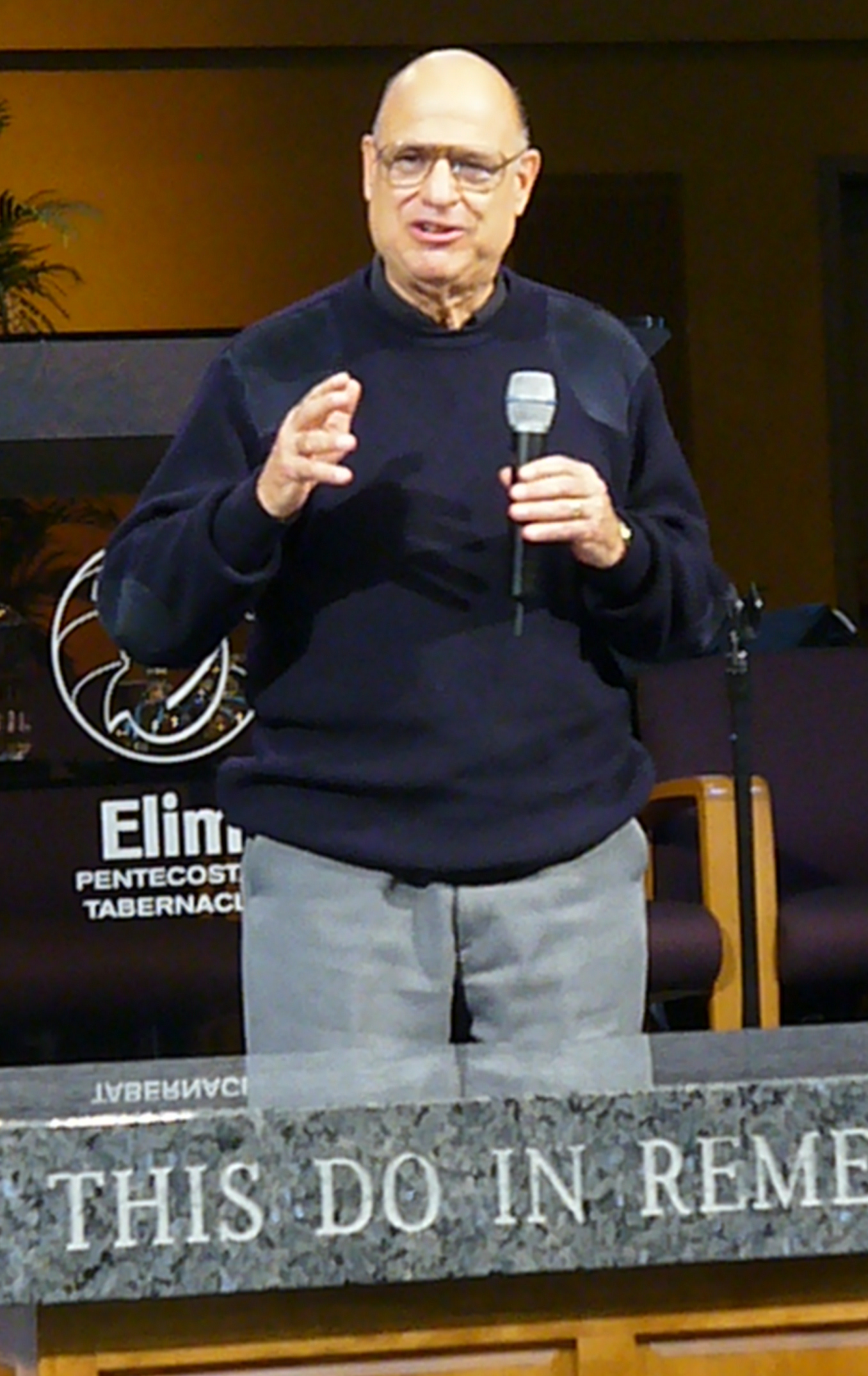 This photo depicts American pastor Tony Campolo speaking at Elim Pentecostal Tabernacle in Newfoundland on behalf of World Vision in May 2009.